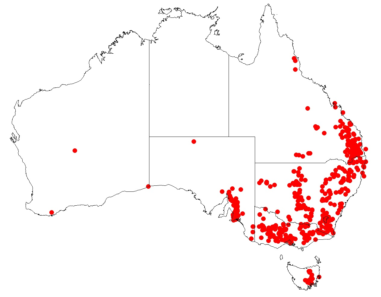 Map of Australia's Virtual Herbarium data for Velleia paradoxa downloaded under CC licence from AVH, 30 April 2018